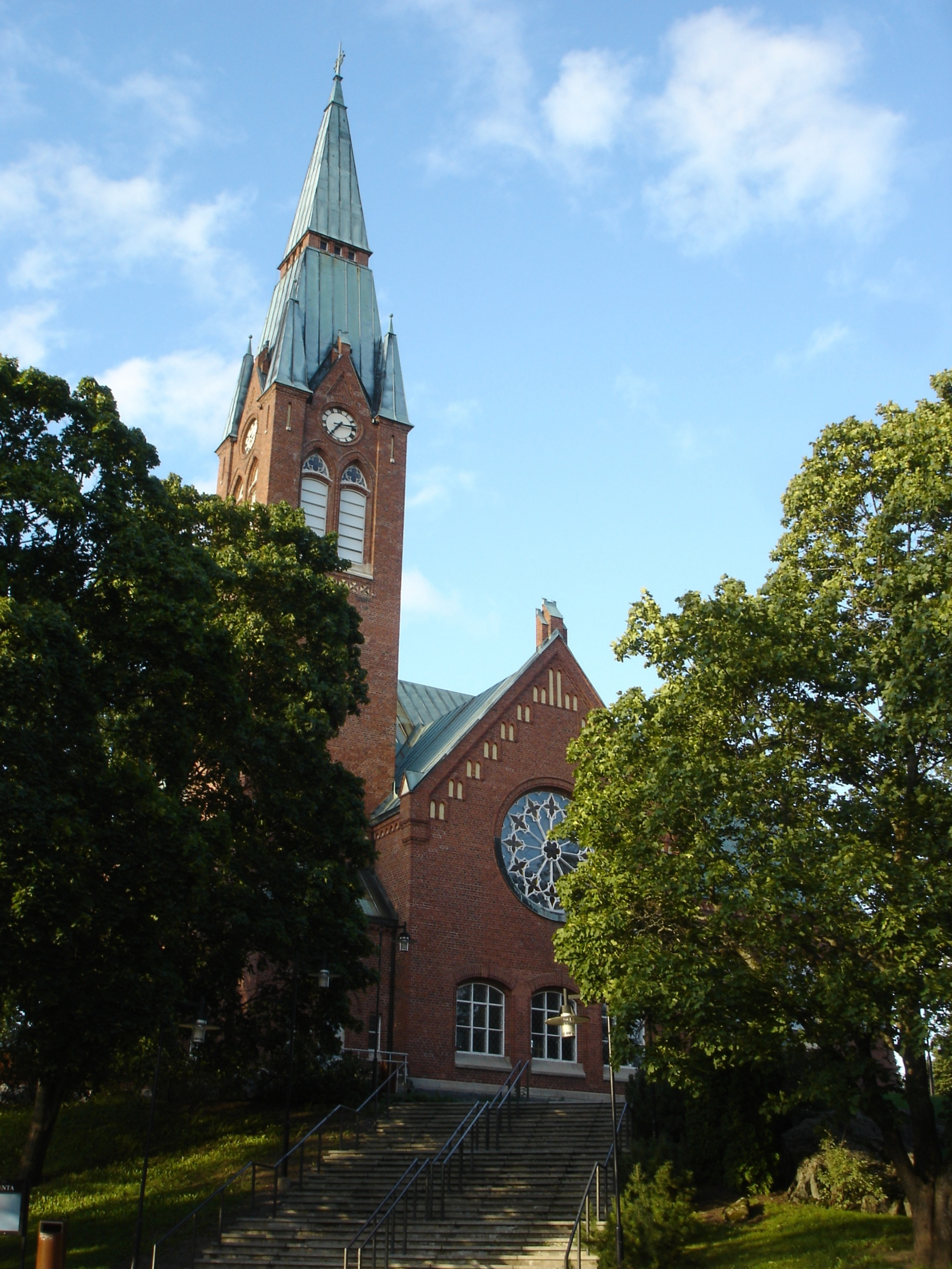 Forssa church